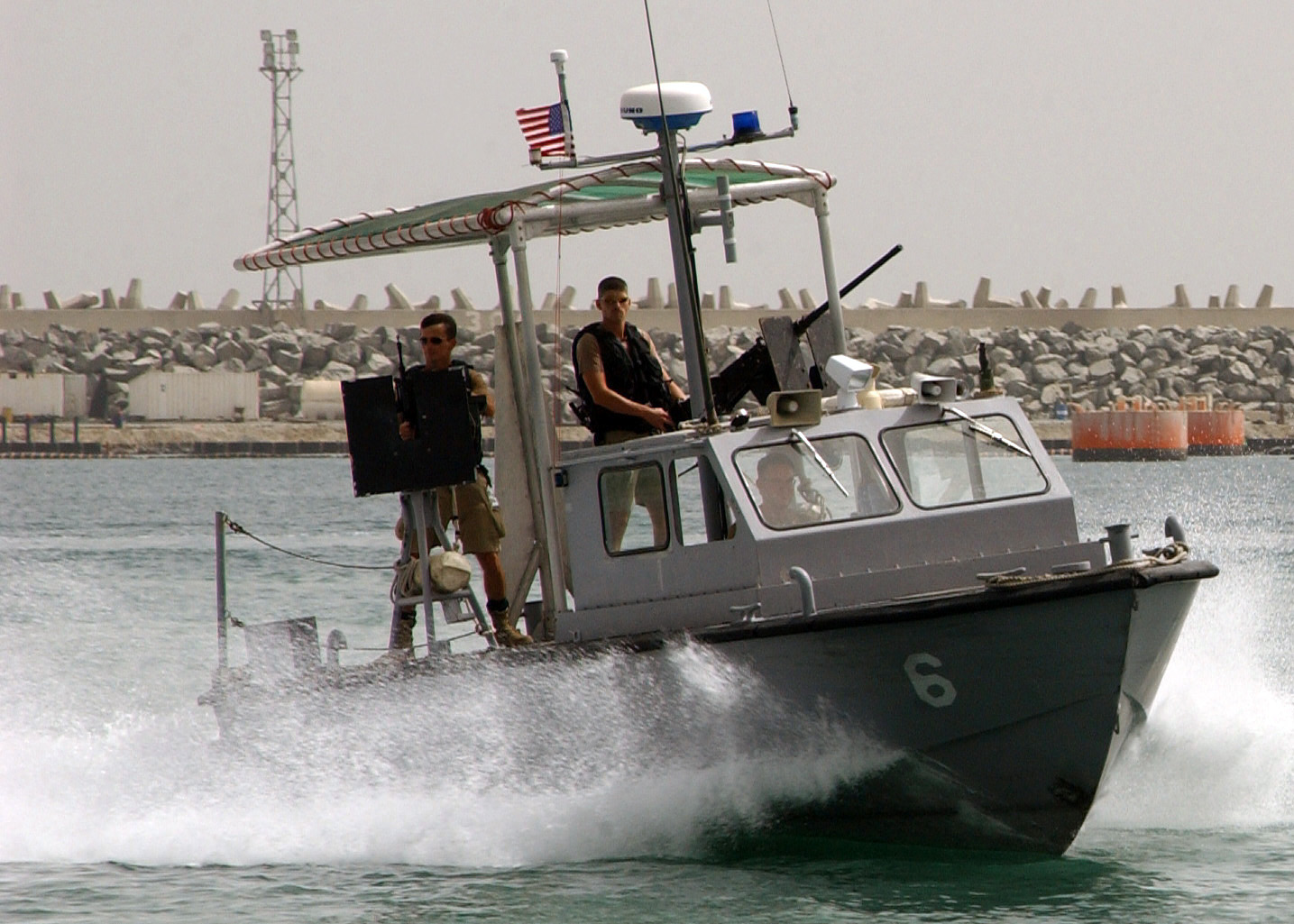 Fujairah, United Arab Emirates (May 17, 2004) - Crew members assigned to Inshore Boat Unit Twenty Five (IBU-25), patrols the waters off of Fujairah, United Arab Emirates. IBU-25 is home ported in Annapolis, Md., and mobilized with more the 70 Navy Reservists to proved anti-terrorism and force protection to Military Sealift Command ships, and coalition warships operating in the region. U.S. Navy photo by Journalist 2nd Class Jason Trevett (RELEASED)